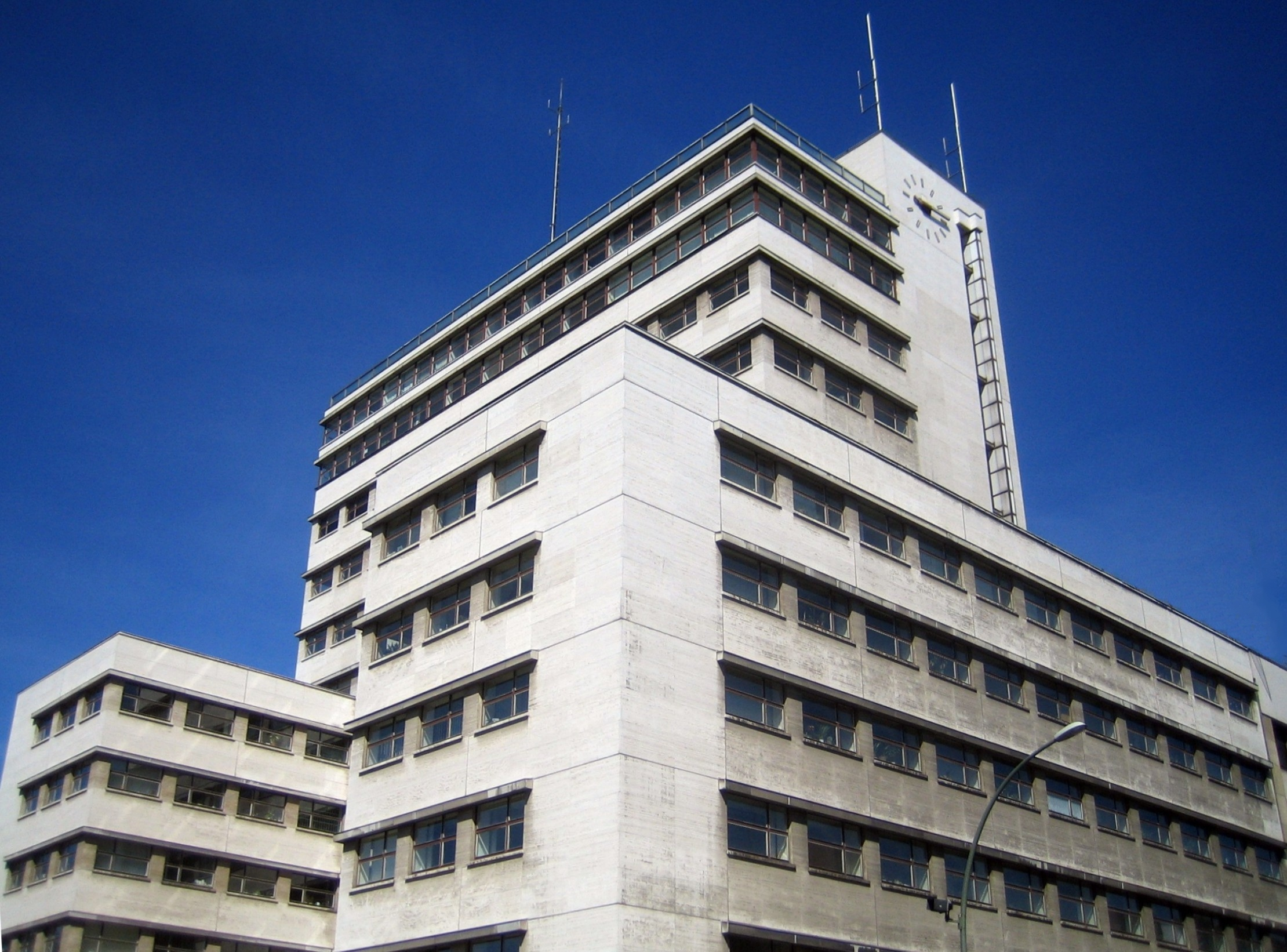 The so-called "Kathreiner-Hochhaus" in Berlin, designed by the architect Bruno Paul. Built in 1928/1930.